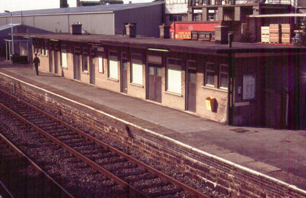 Bentham station